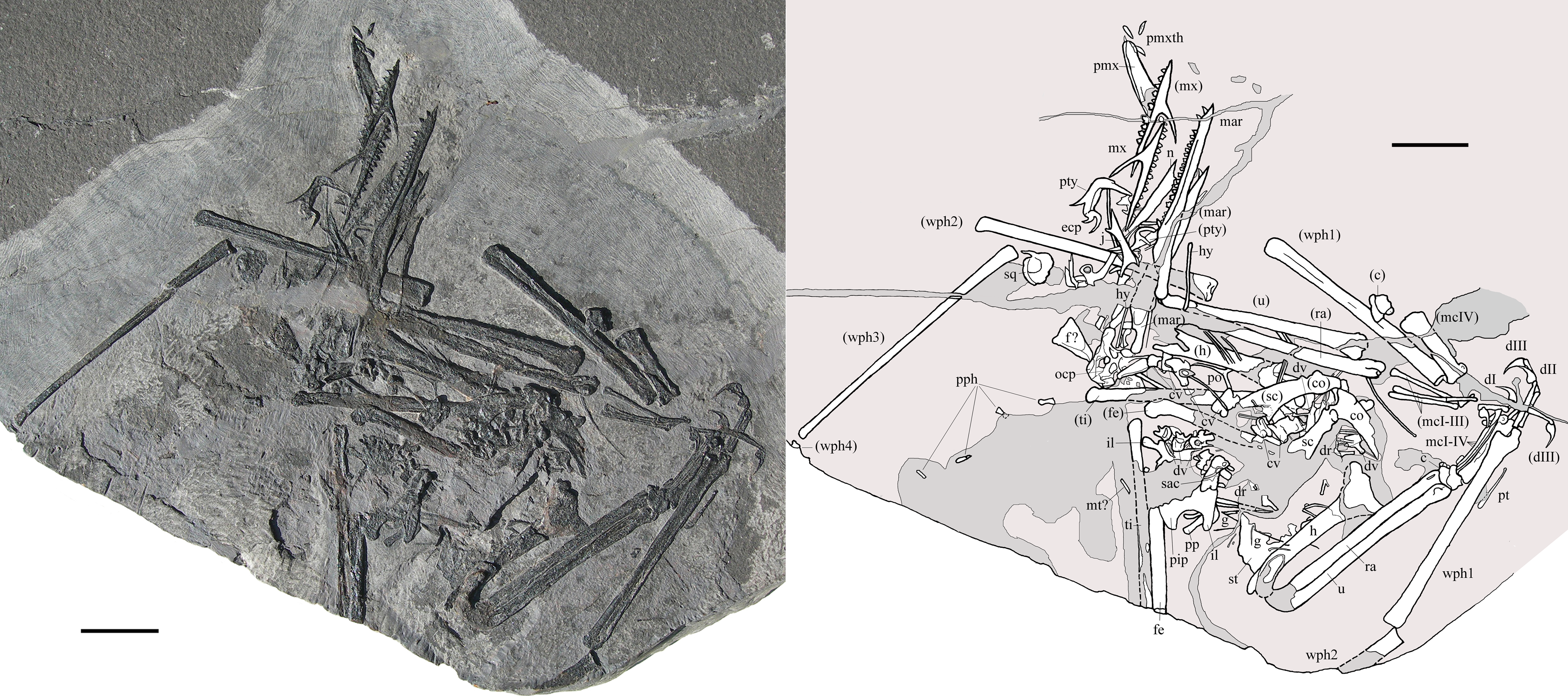 Seazzadactylus venieri, MFSN 21545 (holotype). Photograph left. Scale bar equals 20 mm. Seazzadactylus venieri, MFSN 21545 (holotype). Drawing right. Abbreviations: c, carpus; co, coracoid; cv, cervical vertebra; dI–III, manus digits I–III; dr, dorsal rib; dv, dorsal vertebra; ecp, ectopterygoid; f, frontal; fe, femur; g, gastralia; h, humerus; hy, ceratobranchial I (hyoid apparatus); j, jugal; il, ilium; mar, mandibular ramus; mcI–IV, metacarpals I–IV; mt, metatarsal; mx, maxilla; n, nasal; ocp, occiput; pip, puboischiadic plate; pmx, premaxillae; pmxth, premaxillary teeth; po, postorbital; pp, prepubis; pph, pes phalanges; pt, pteroid; pty, pterygoid; ra, radius; sac, sacrum; sc, scapula; sq, squamosal; st, sternum; ti, tibiotarsus; u, ulna; wph1–4, wing phalanges 1–4. When it was possible to distinguish between right and left elements, elements in parentheses are from the left side. Scale bar equals 20 mm.